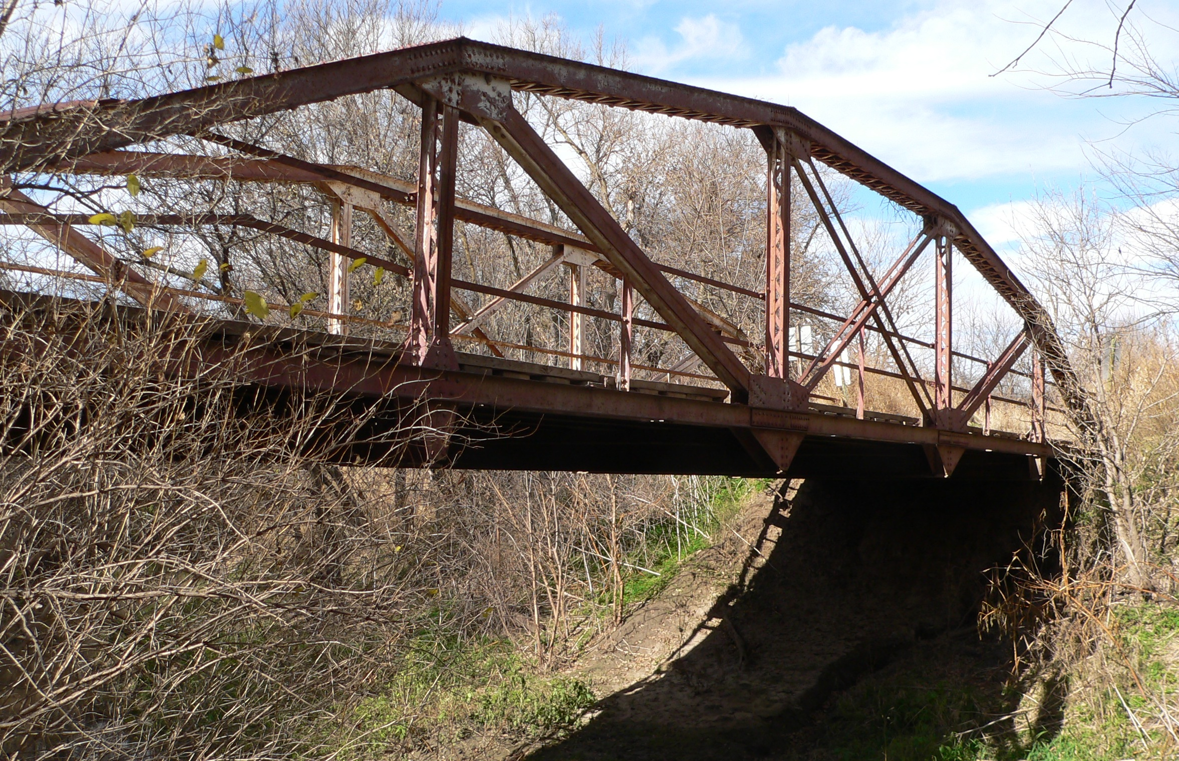 Prairie Dog Creek Bridge in Harlan County, Nebraska. The bridge is located on County Road H less than half a mile north of the Kansas-Nebraska border. The picture was taken facing northwest (upstream). The camelback pony truss bridge was built in 1913 by the Monarch Engineering Co. and the Jones & Laughlin Steel Co. It is still in use, though Road P is a minimum-maintenance road. The bridge is listed in the National Register of Historic Places.